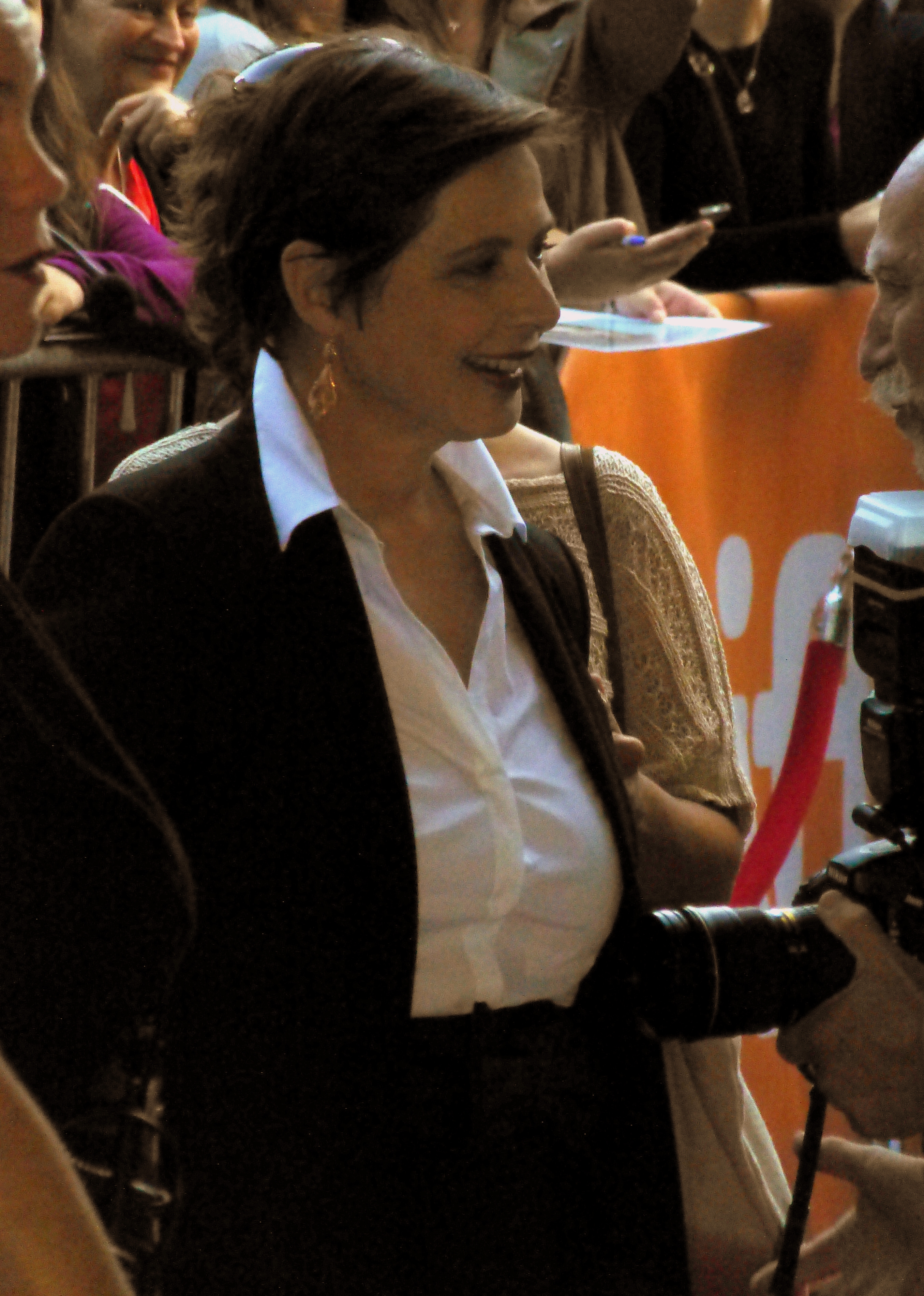 Isabella Rossellini at the premiere of Enemy, Toronto Film Festival 2013